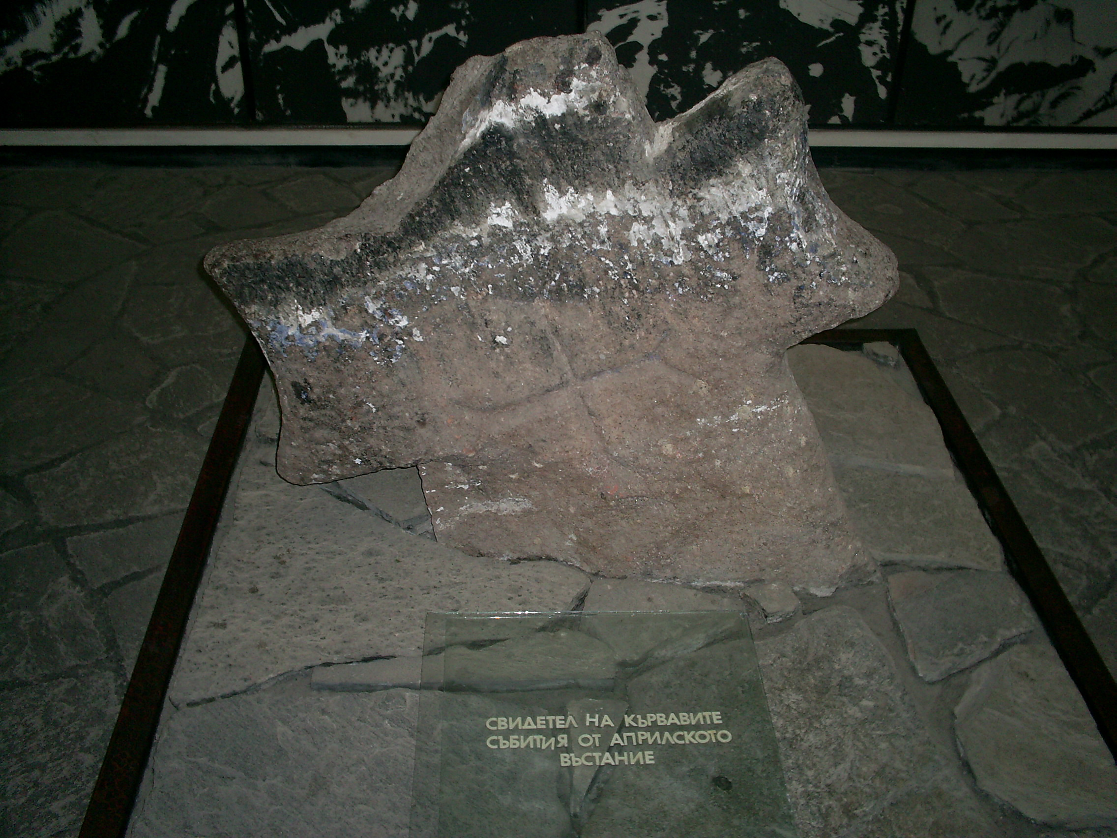 Cross from the church "Saint Nedelya" in Batak, Bulgaria - a "witness" of the bloody massacre of Turkish over Bulgarians. Exhibited today in the town museum.